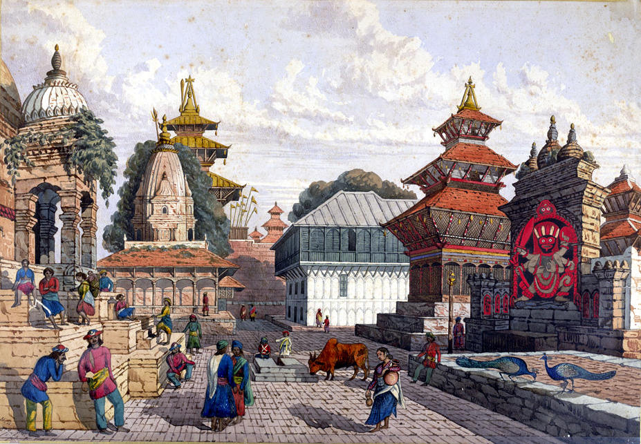 Watercolor of Kathmandu Durbar Square, the royal palace complex, in 1852, painted by Henry Ambrose Oldfield (1822-1871).